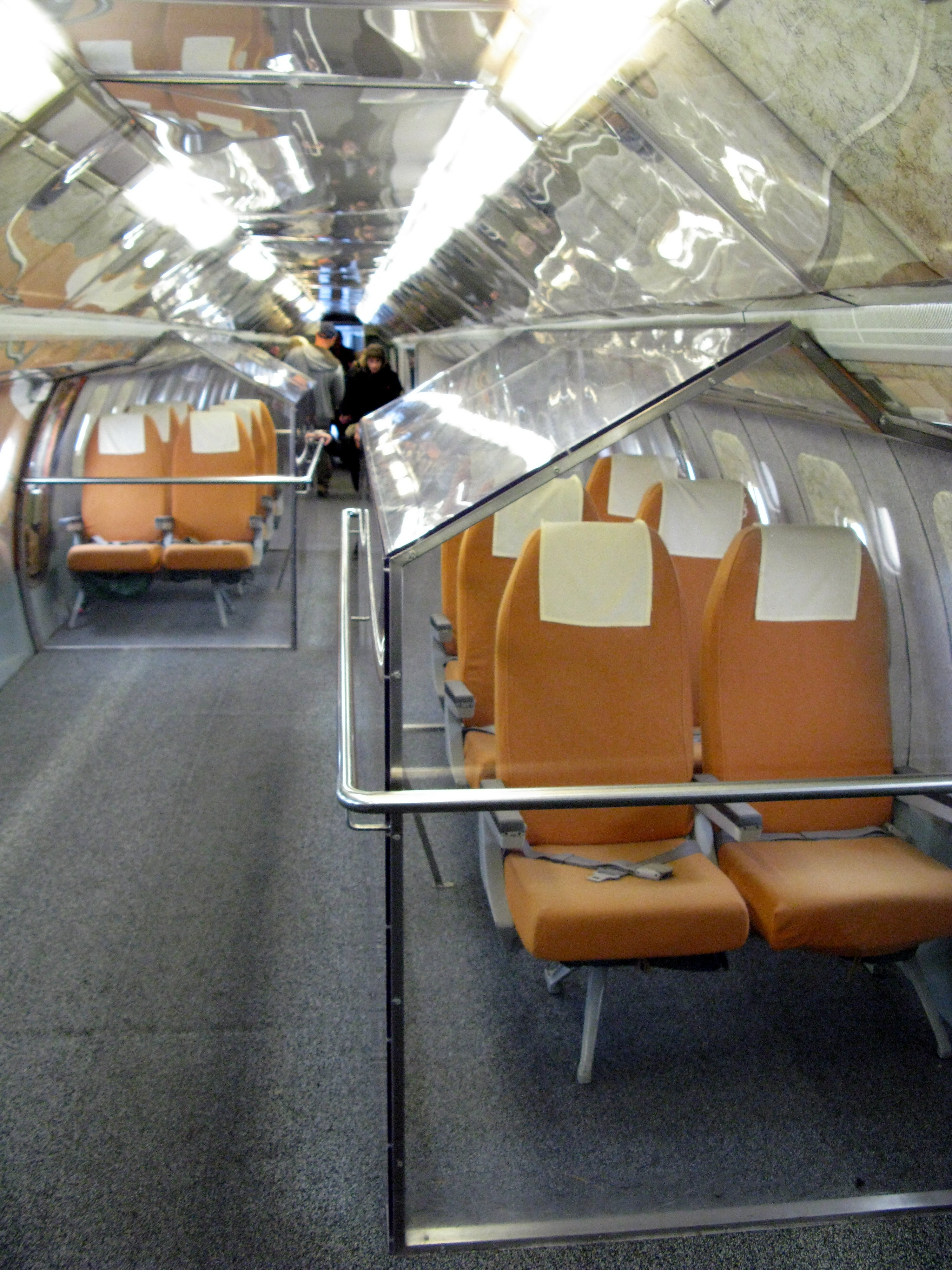 In the cabin of the Tupolev Tu-144 in the Technikmuseum Sinsheim